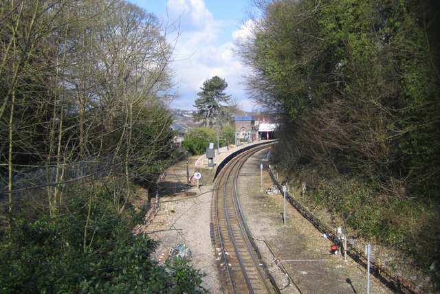 Metropolitan Line railway at Chesham. Chesham is one of the outermost stations on the London Underground system and an hour and a quarter's journey time from Aldgate in the City. The railway line was opened to Chesham in 1889, but a planned extension to Tring was never built. The line was not electrified until 1960, and at one time had a goods yard to the north of the station which is now a car park. This view was taken looking northwards from the public footpath overbridge to the south of the station.